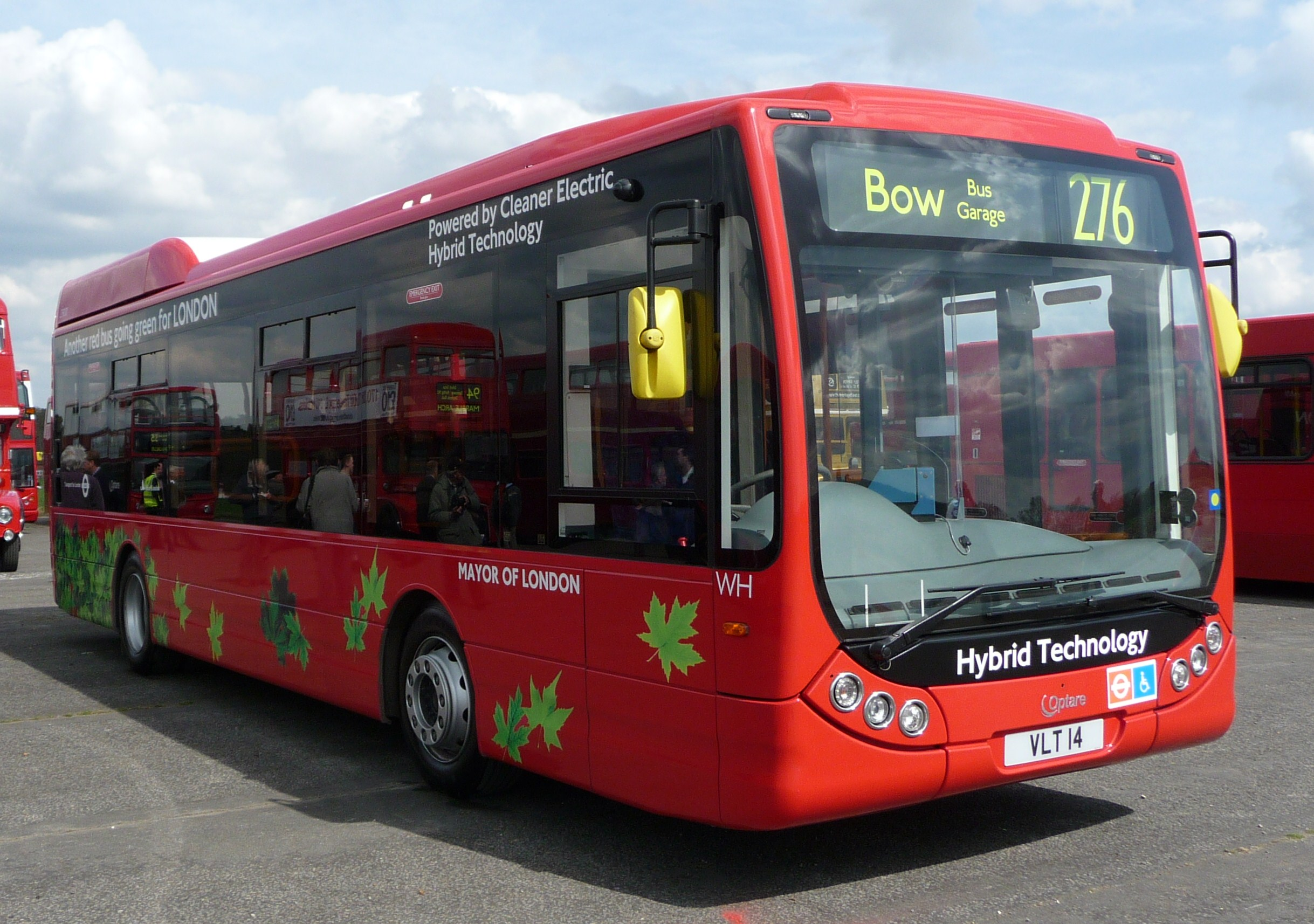 East London's 29001 (VLT 14), a hybrid Optare Tempo, at the 2009 Cobham bus rally at Wisley Airfield. It carries ex-Routemaster registration VLT 14; its original registration is YJ08 PGO.